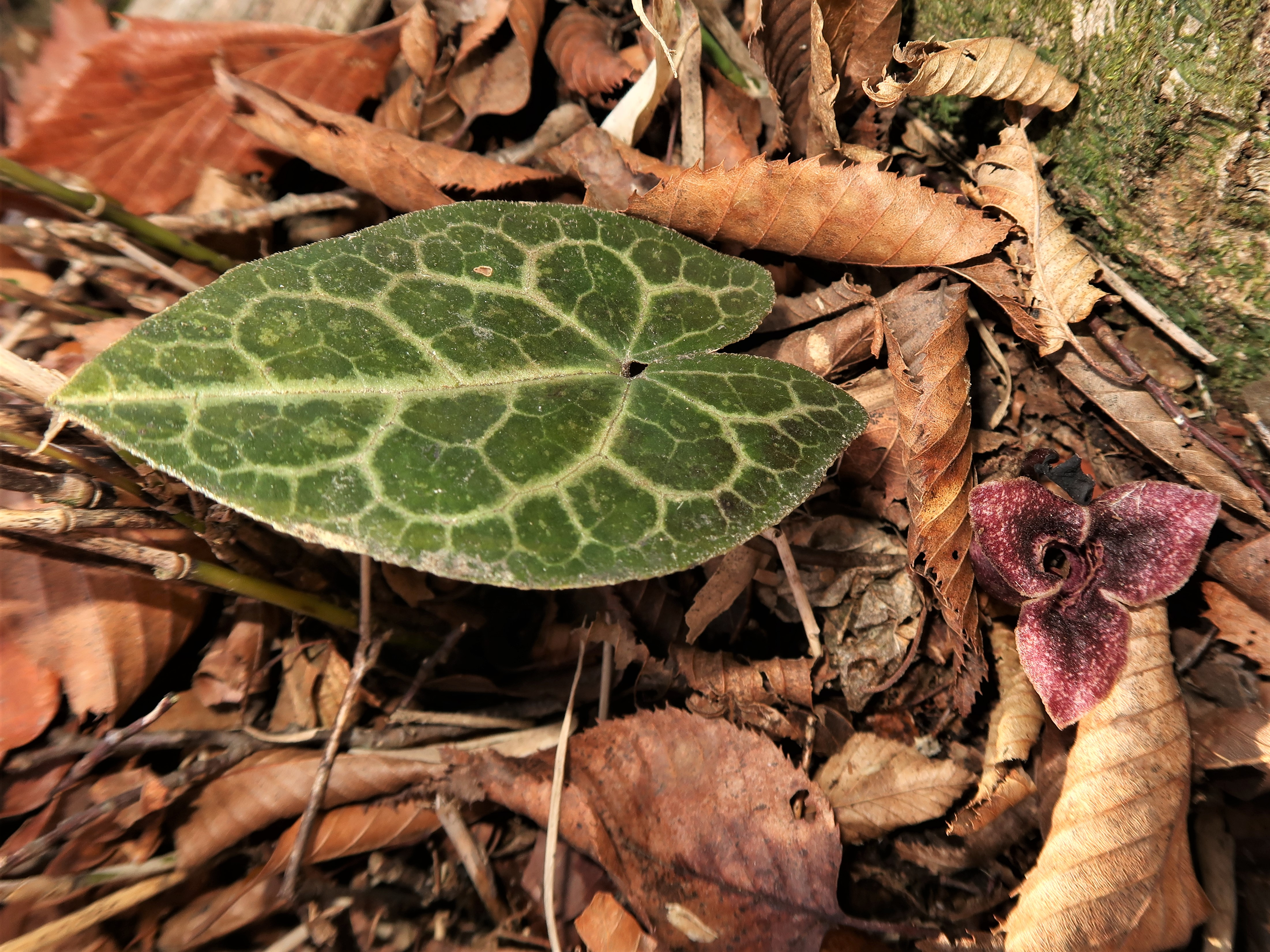 Asarum curvistigma, Nanbu town, Yamanashi pref., Japan